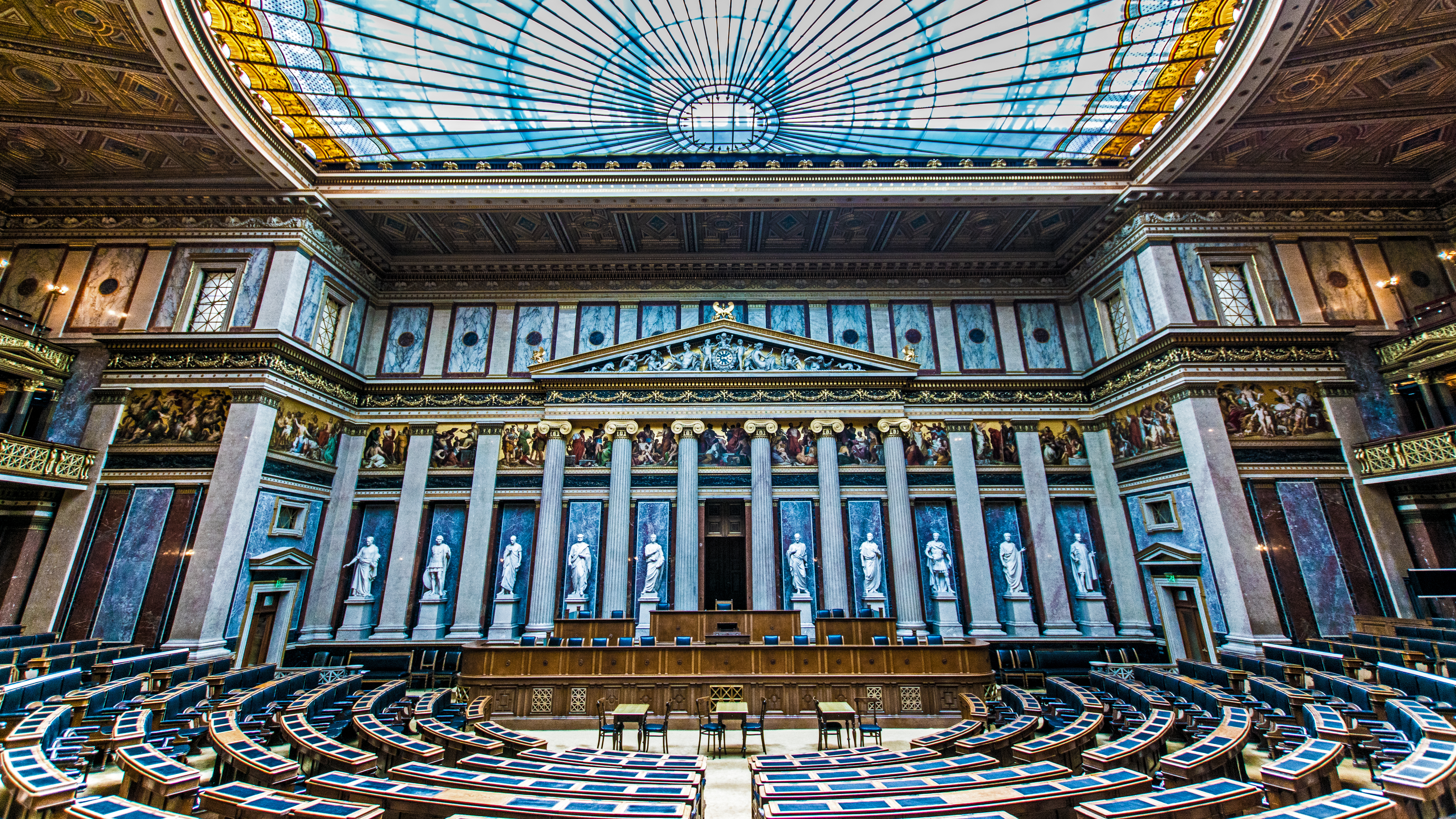 Historicle Debating Chamber of the former House of Deputies of Austria, Vienna